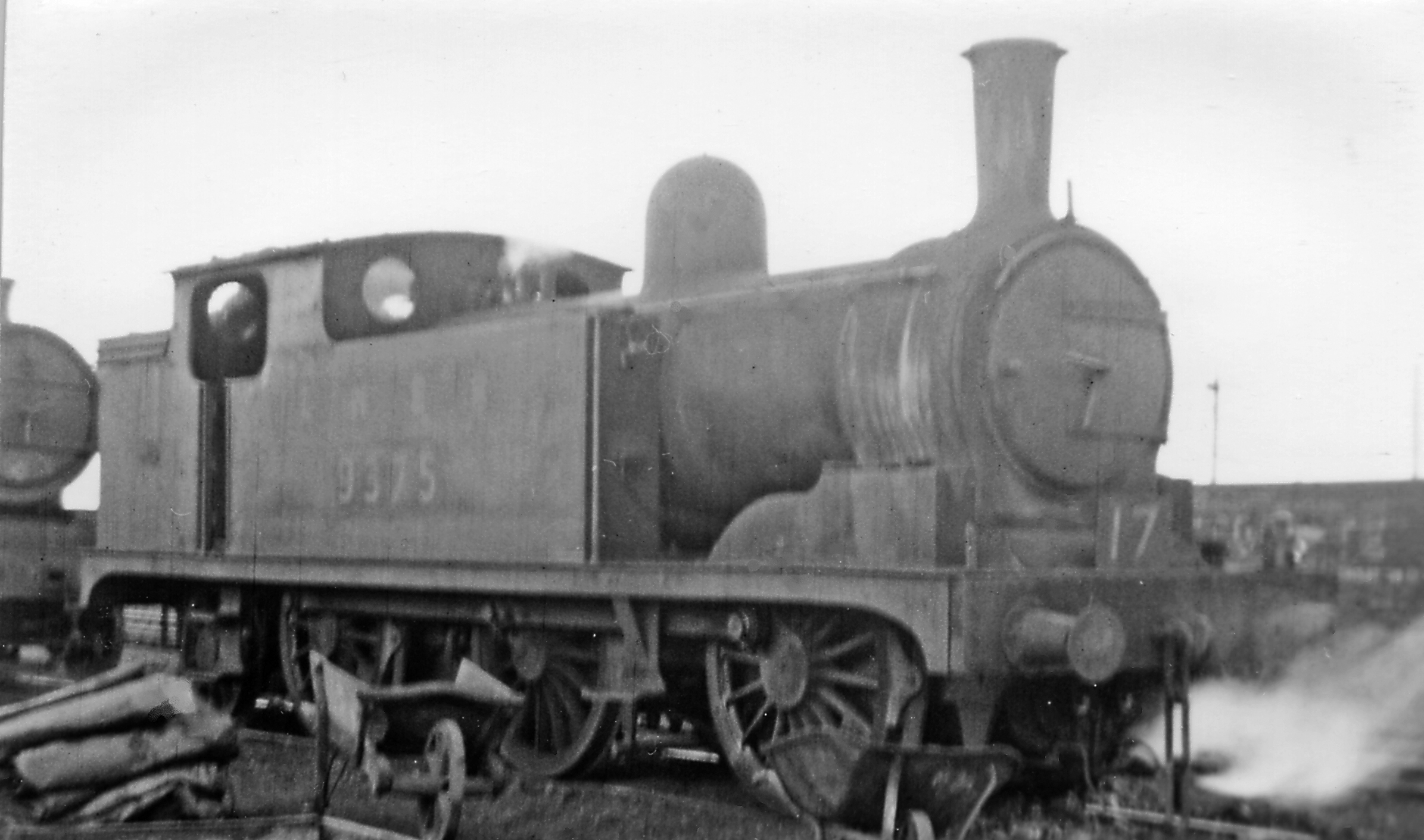 Ex-NER N8 0-6-2T at Hull Dairycotes Locomotive Depot. Carrying Trip No. 17, indicating its use on one of the numerous local workings between Marshalling Yards, No. 9375 is an ex-NER T.W. Worsdell class B (LNER N8) 0-6-2T (built 3/1888 as No. 74 (LNER 1946 No. 9375), withdrawn 3/49.